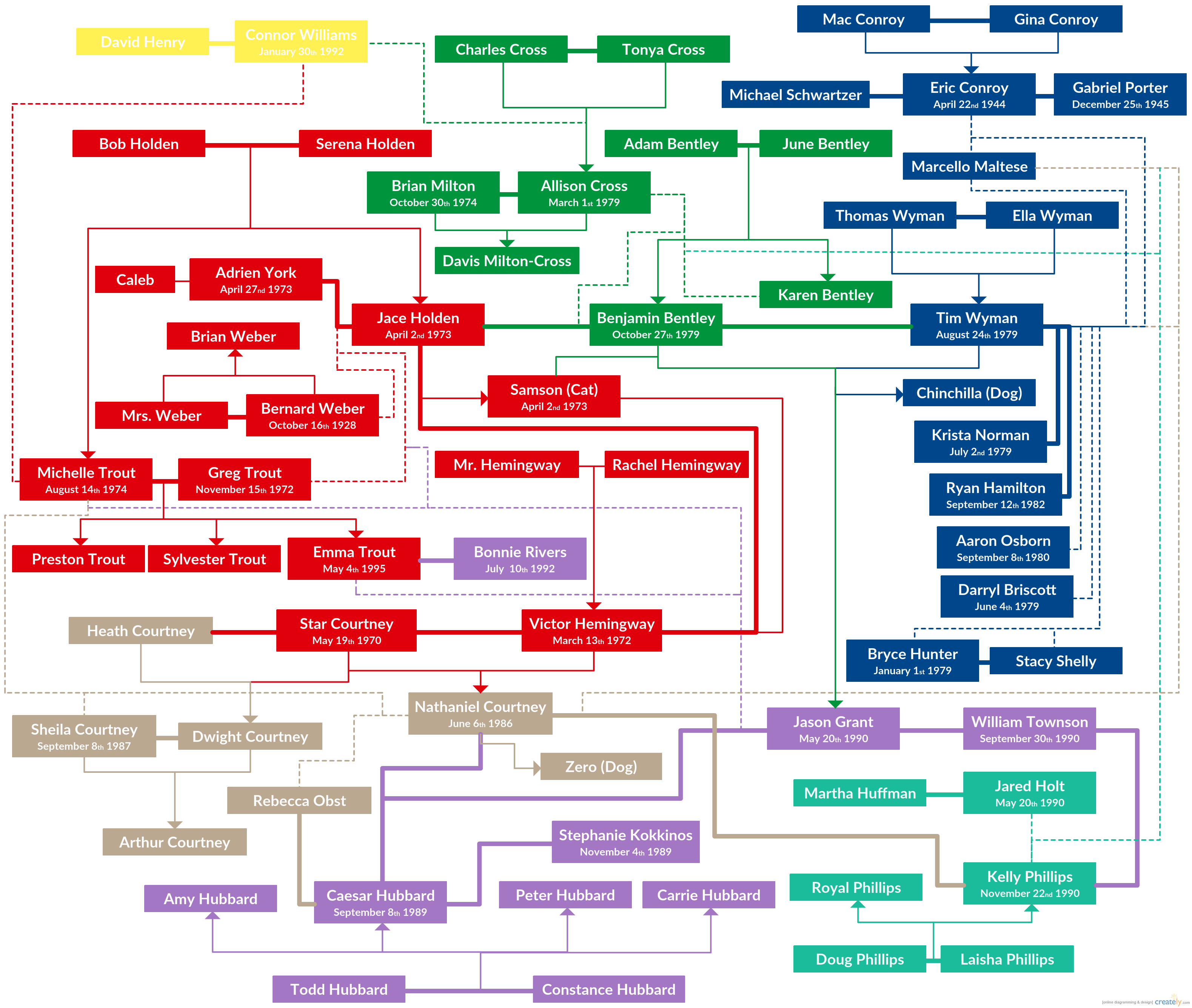 Characters and their relationships are represented - bold lines are romantic, light lines are family and light dotted lines are platonic. Characters are colored based on the Main characters from each book .